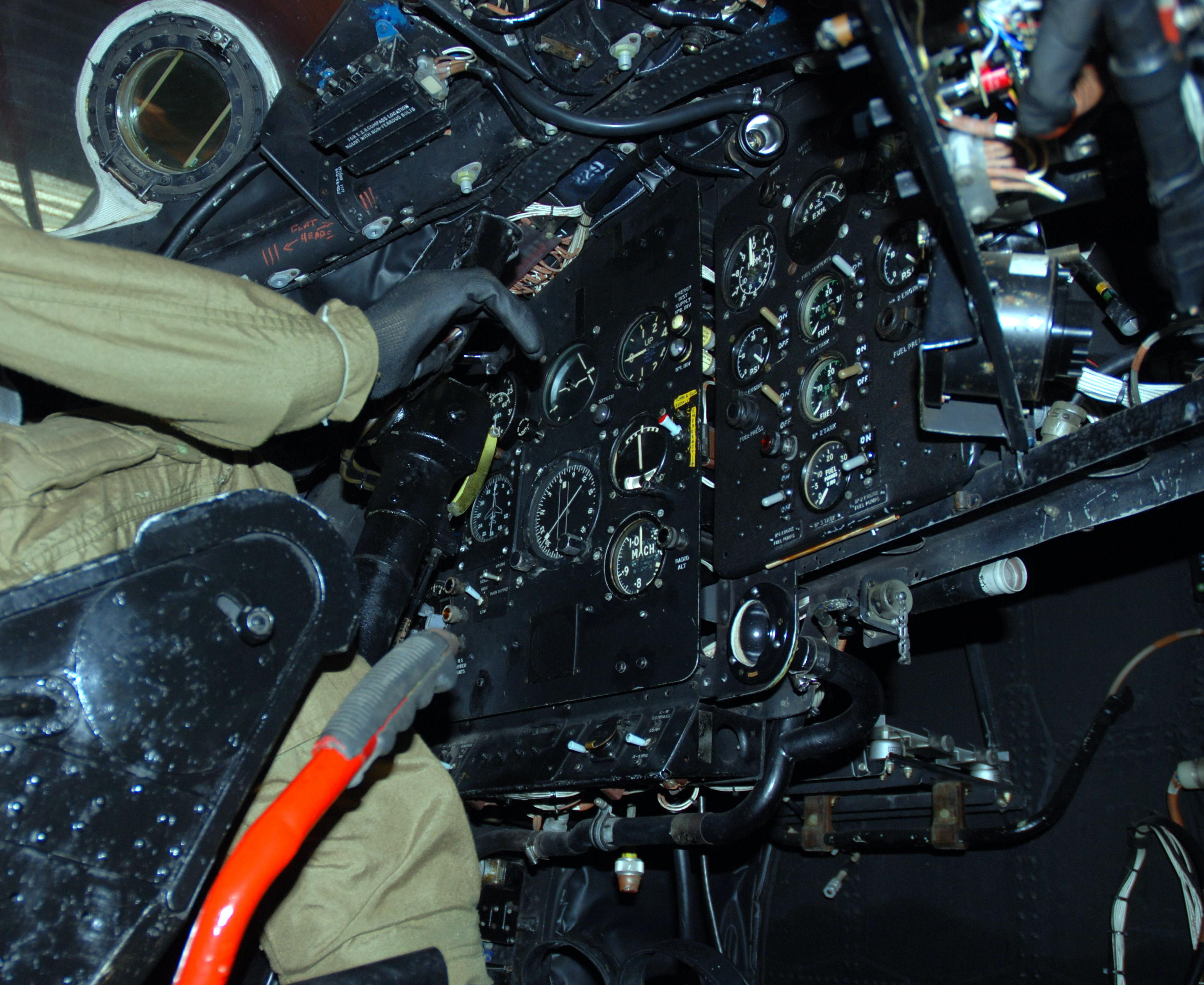 Photo ref; Nikon-D80-2013-DSC_1796 (Edited)